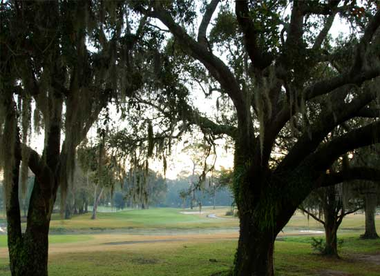 View of Babe Zaharias golf course - Tampa